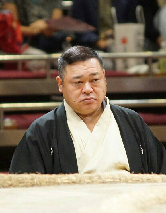 taken at 2015 Sept tournament